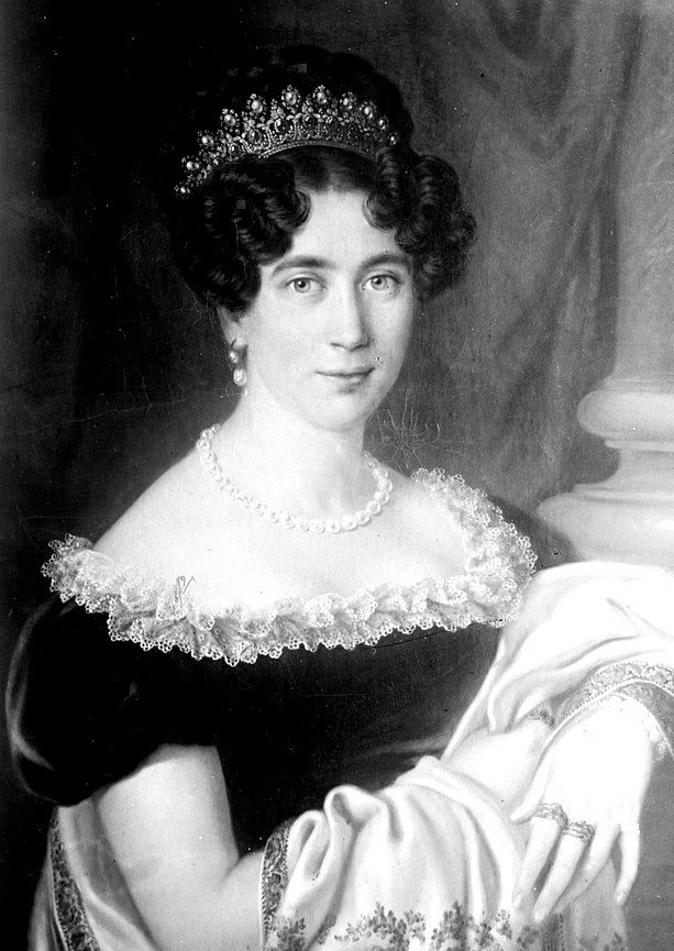 Luise Karoline Marie Friederike von Hessen-Kassel aus Rumpenheim (1794-1881)